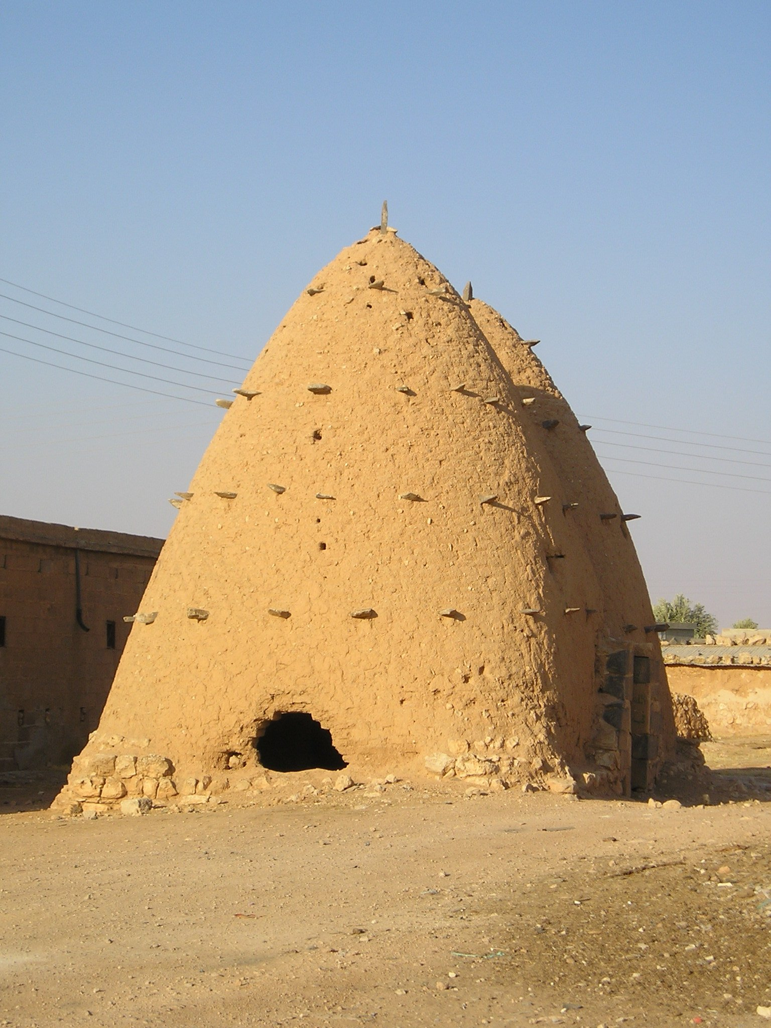 Mud Beehive houses — near Hamra, Hama province, Syria